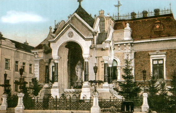 St. Mary Memorial, Timisoara, 1910